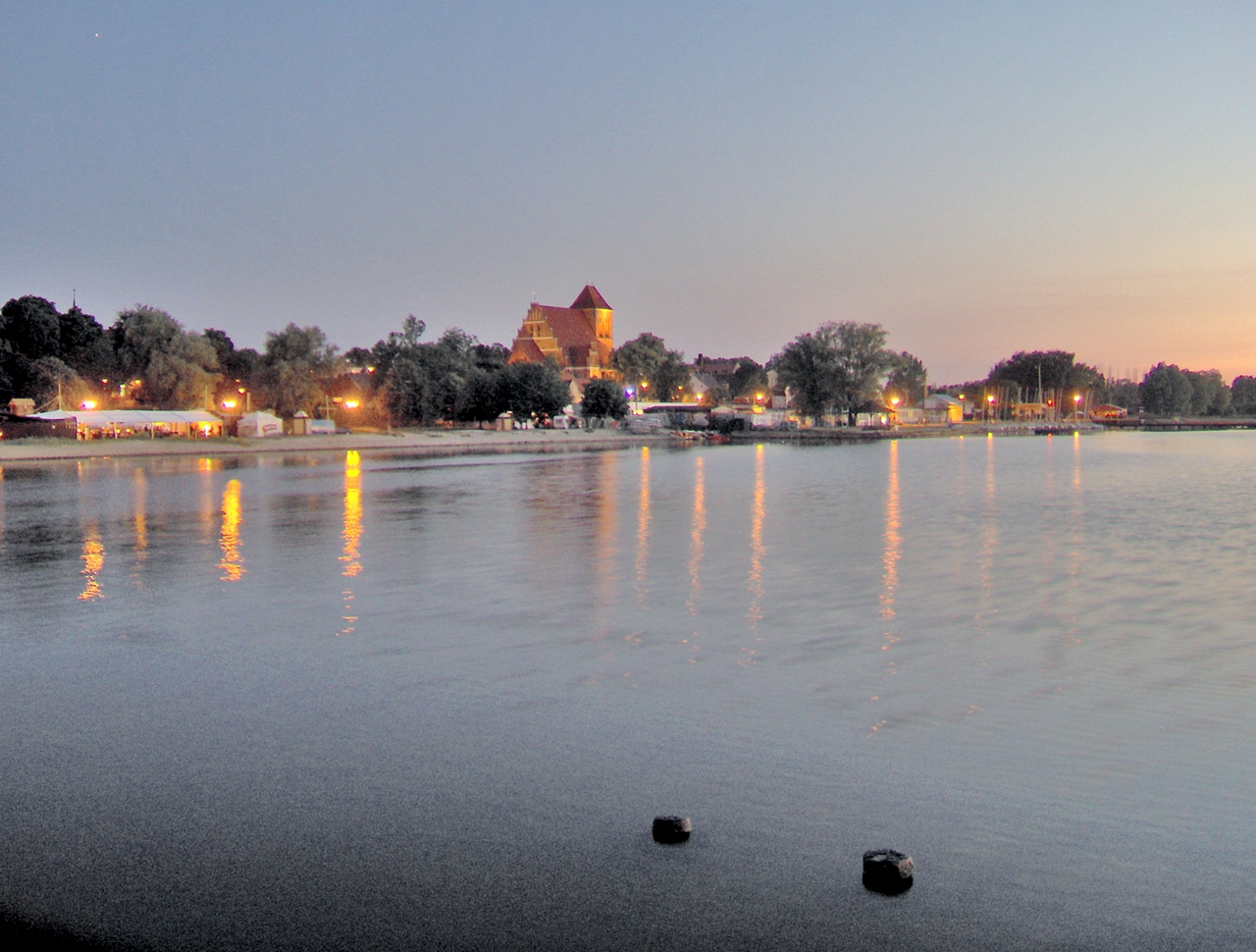 Puck wieczorem Puck in the evening, view from pier, the biggest building is the church of st. Peter and Paul, erected in XIII c. in gothic style Autor: Krzysztof